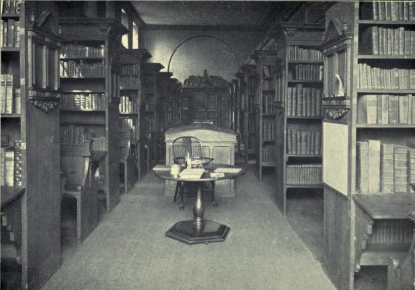 The interior of the Fellows' Library of Jesus College, Oxford, looking from the window at the south end (Market Street).